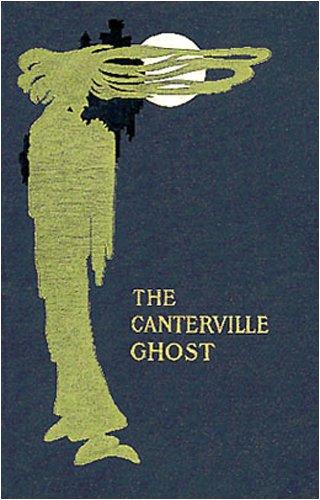 derived image from The Canterville Ghost — cover